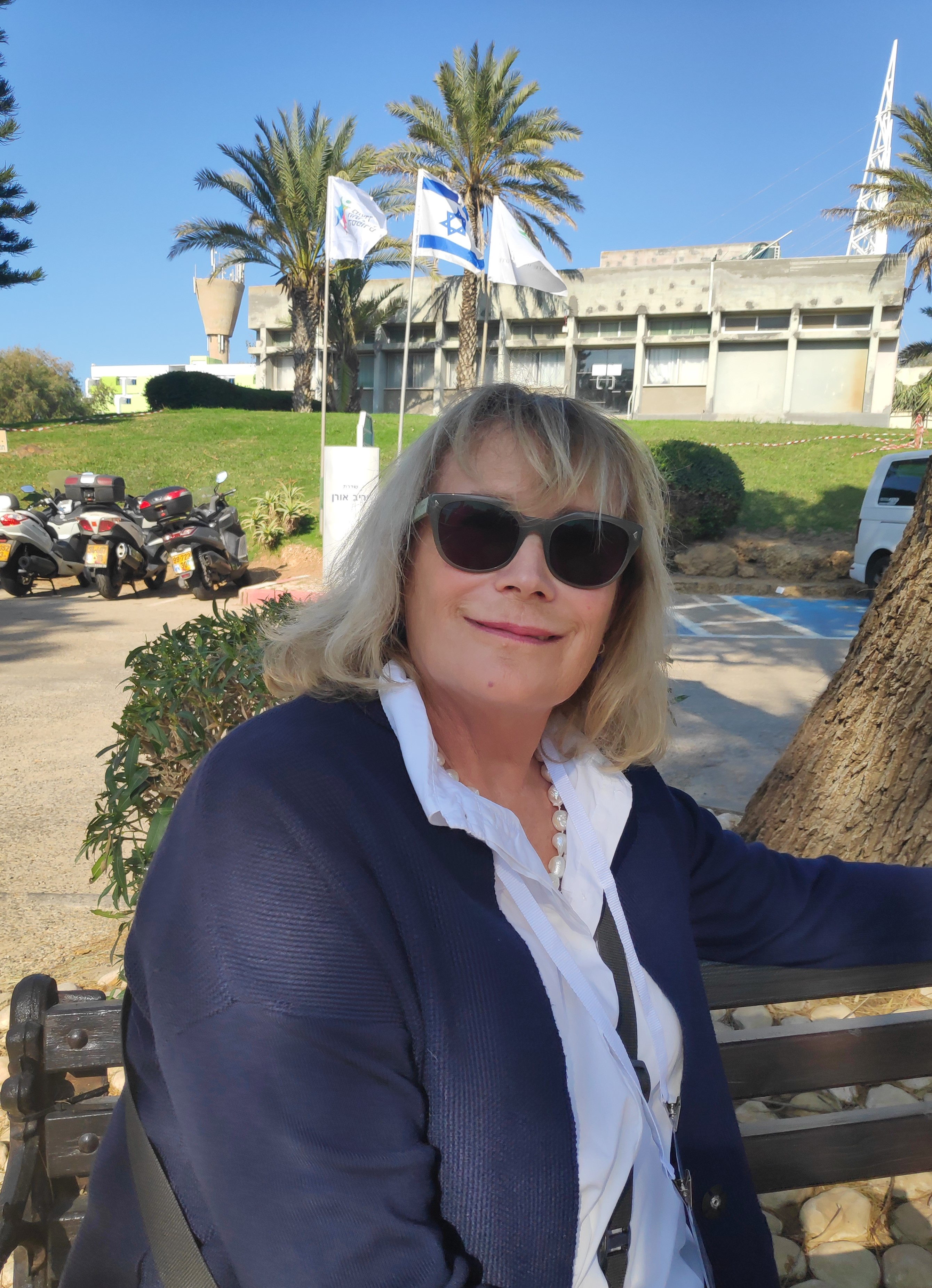 Shlomit Nir, December 2019